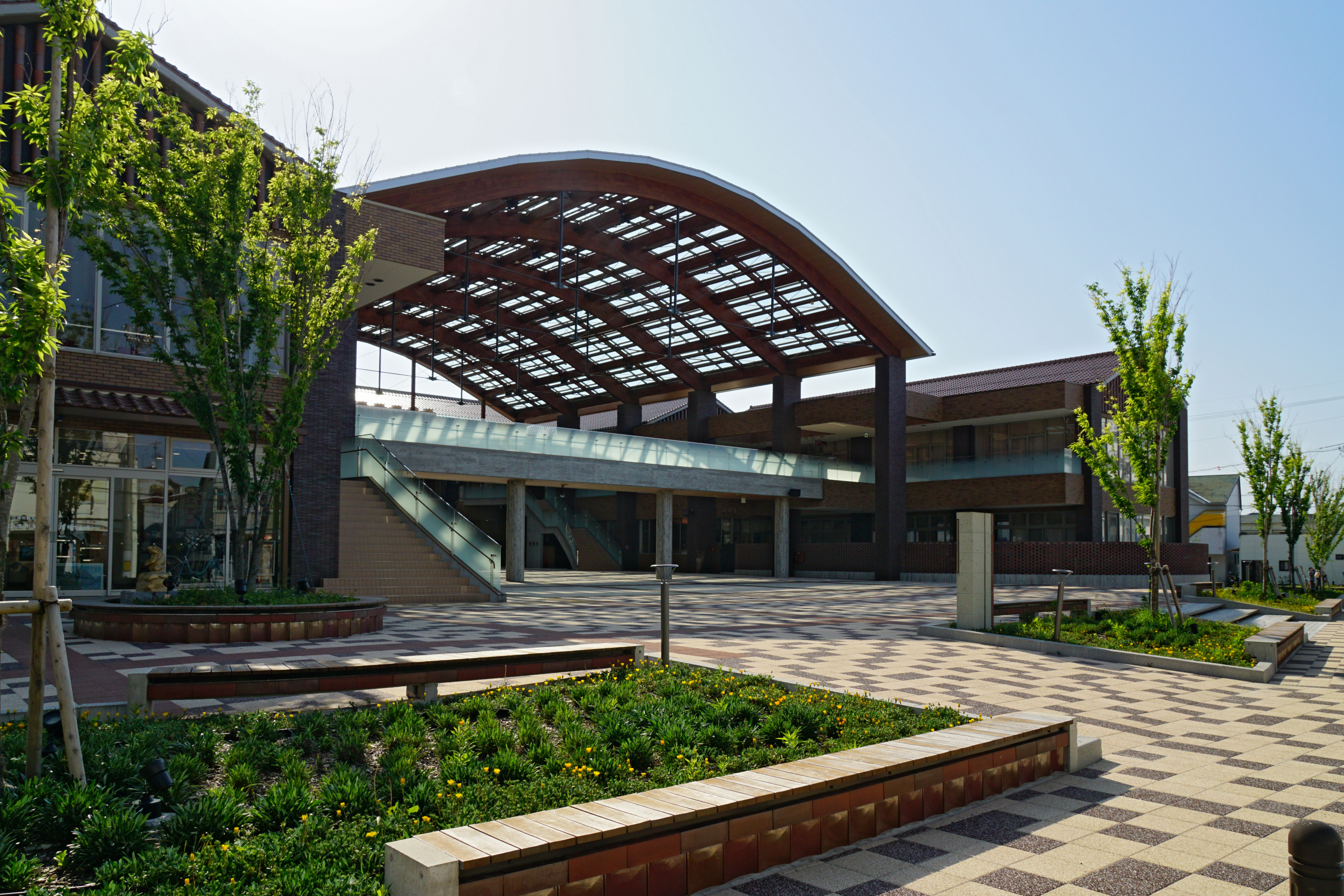 Pallet_Gotsu, Gotsu, Shimane prefecture, Japan